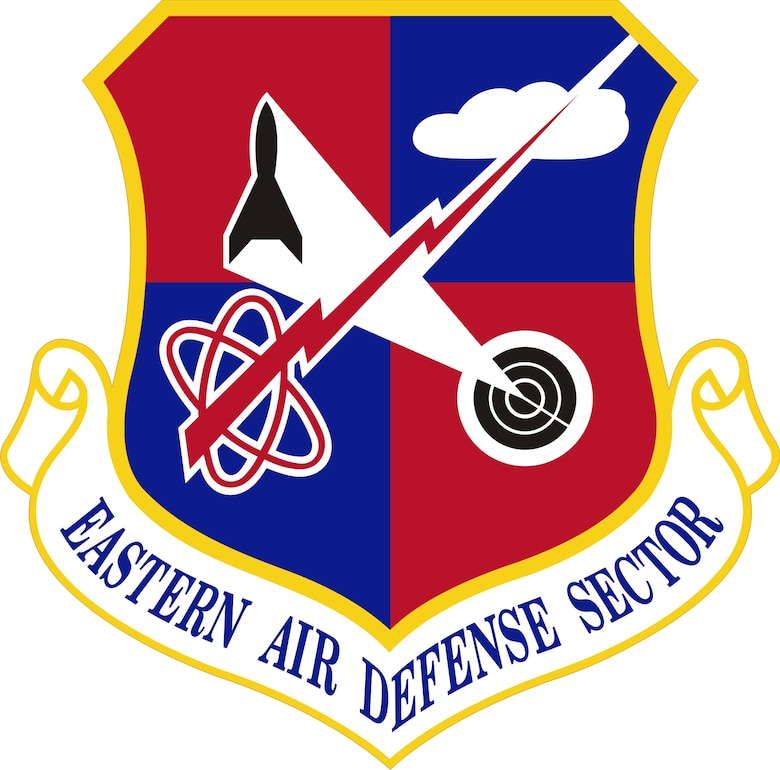 Eastern Air Defense Sector unit emblem